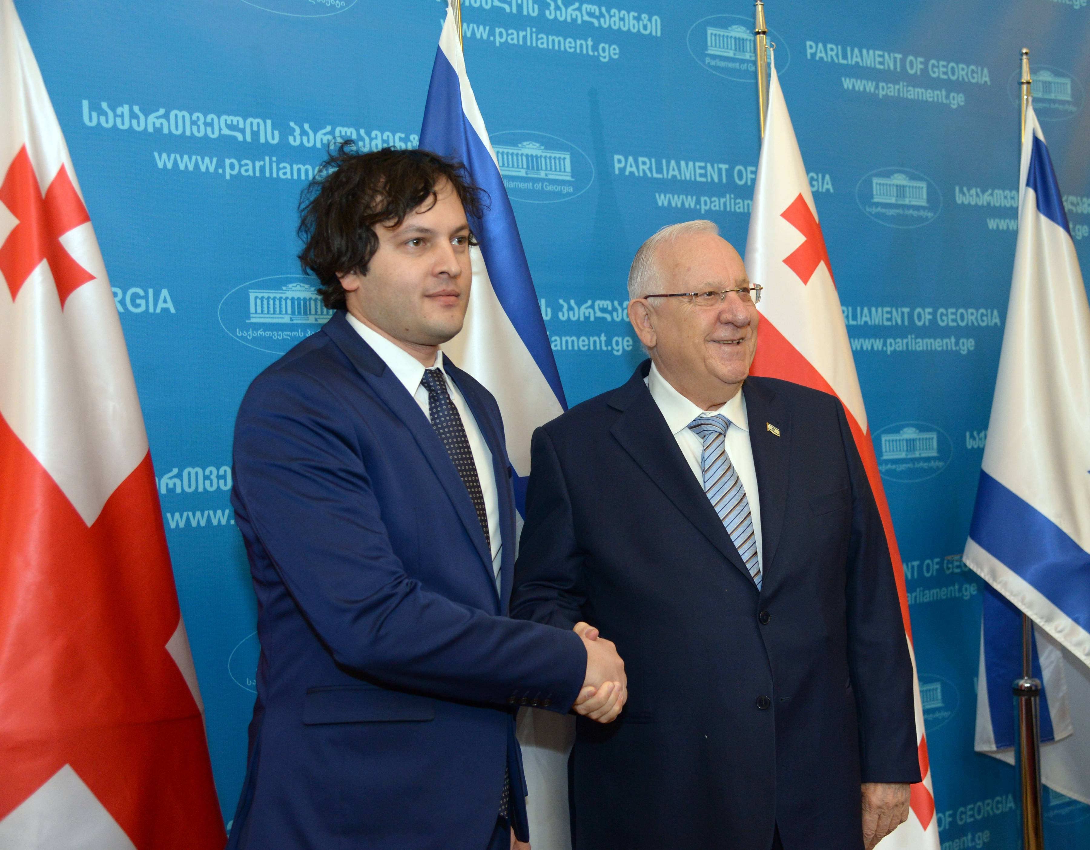 The President of the State of Israel, Reuven Rivlin, at a working meeting with the Speaker of the Georgian Parliament Irakli Kobakhidze Tuesday, 10 January 2017. Photo credit: Haim Zach / GPO.